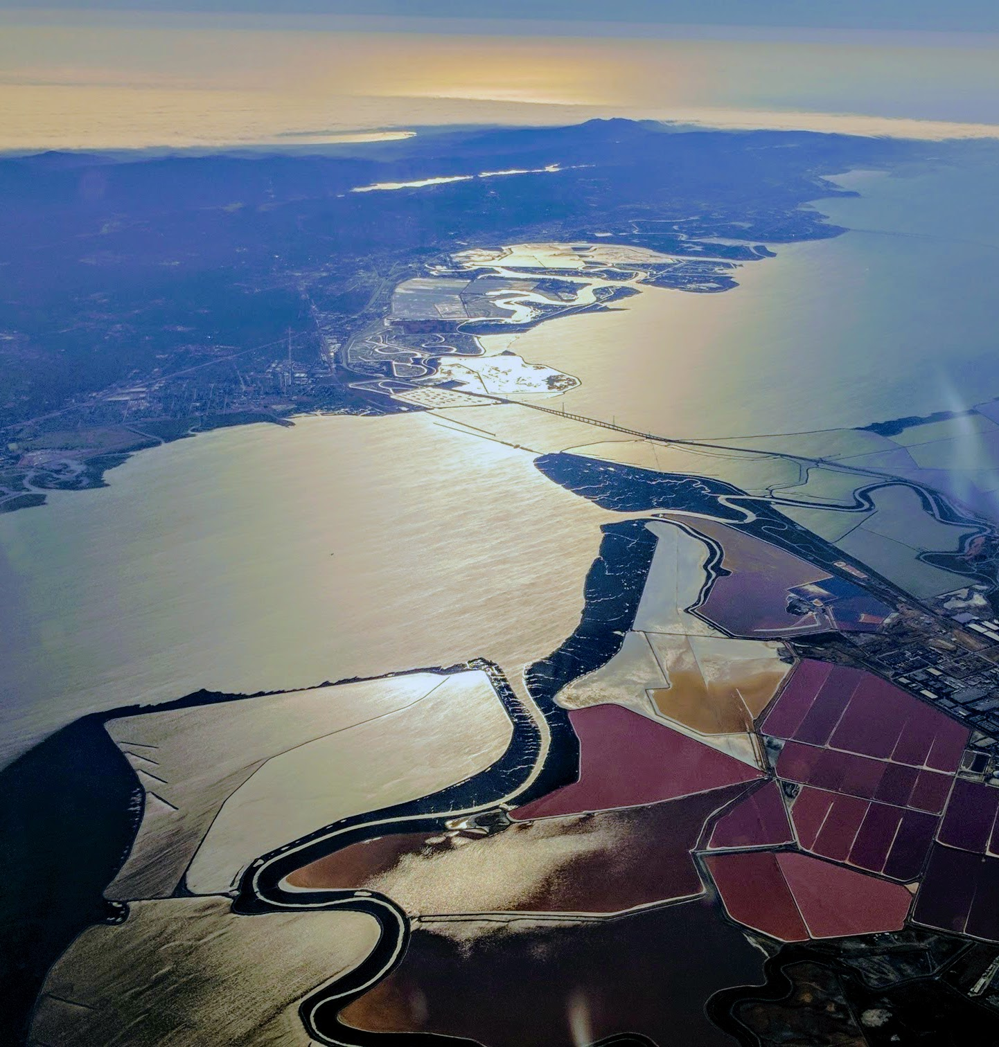 The Mowry Slough (lower center) where it meanders between salt ponds in the south San Francisco Bay, including the Don Edwards San Francisco Bay National Wildlife Refuge and the Dumbarton Bridge, with Peninsula cities in the background